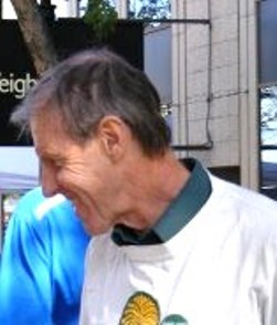 David J. Parker, 2008 Green Party Candidate in Edmonton Centre